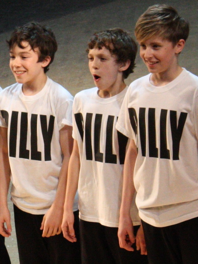 Musical theatre performers (L–R) Fox Jackson-Keen, Tom Holland and Brad Wilson performing the 5th Birthday Show of Billy Elliot the Musical at the Victoria Palace Theatre, London.